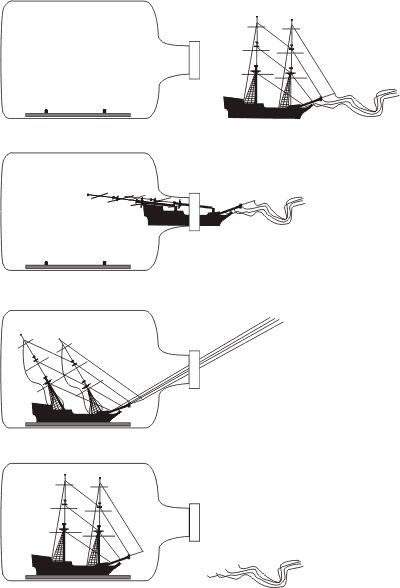 How to put the ship in bottle